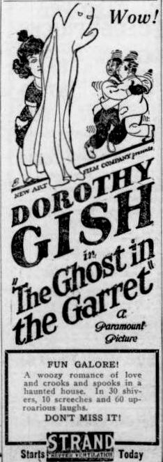 Newspaper advertisement for the American comedy film The Ghost in the Garret (1921) with Dorothy Gish, on page 11 of the May 12, 1921 Duluth Herald.